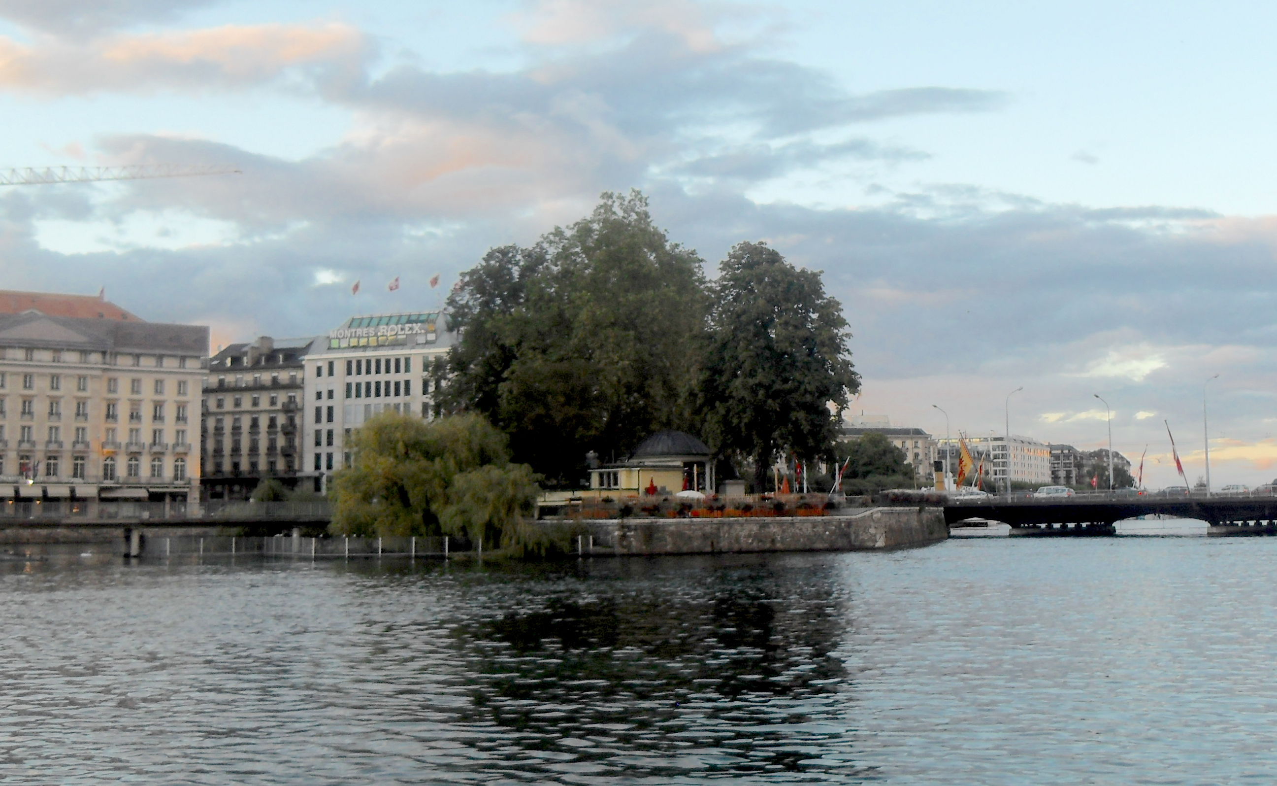 Île Rousseau, Geneva, Switzerland